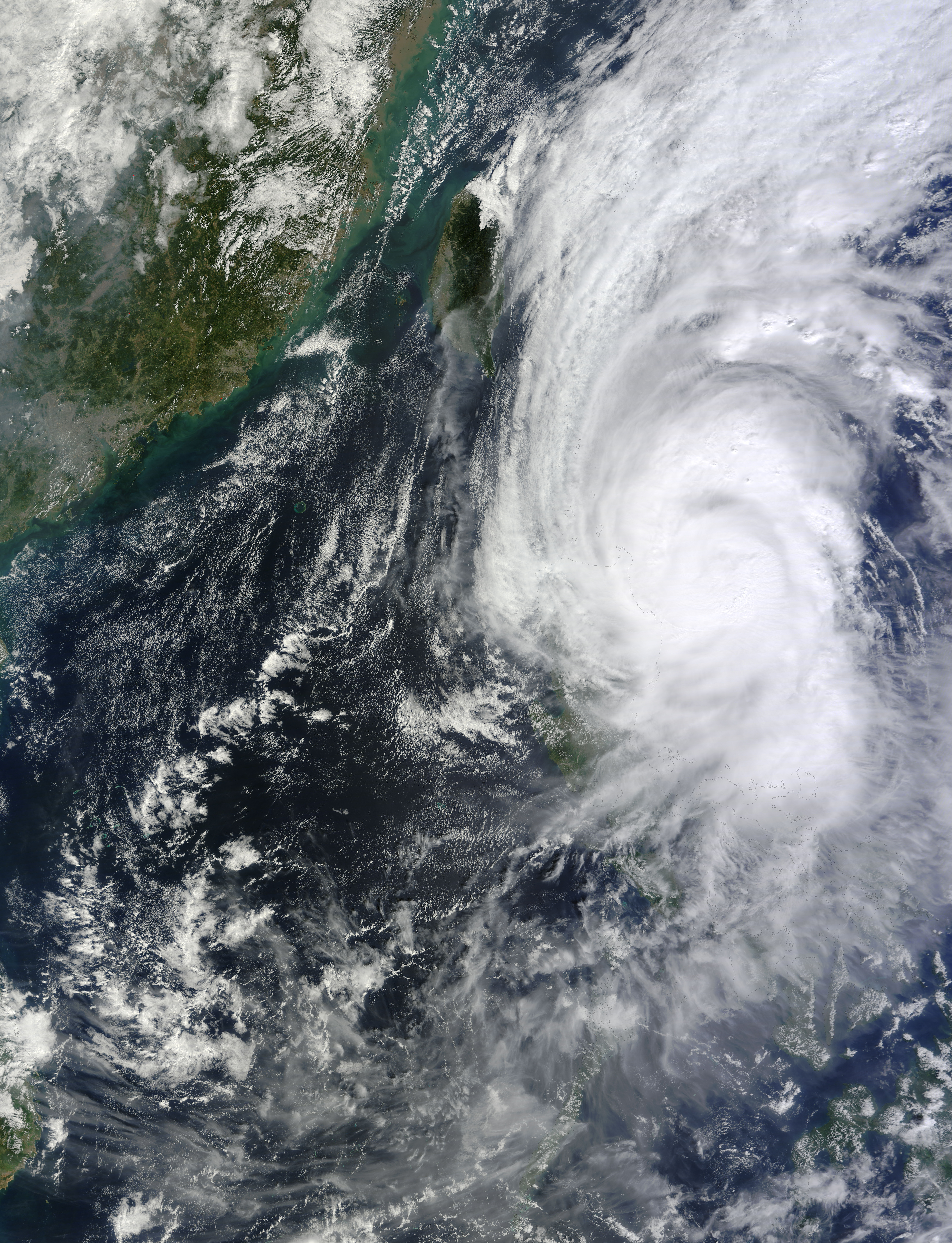 Typhoon Krosa (29W) over the Phillippines on October 31,2013